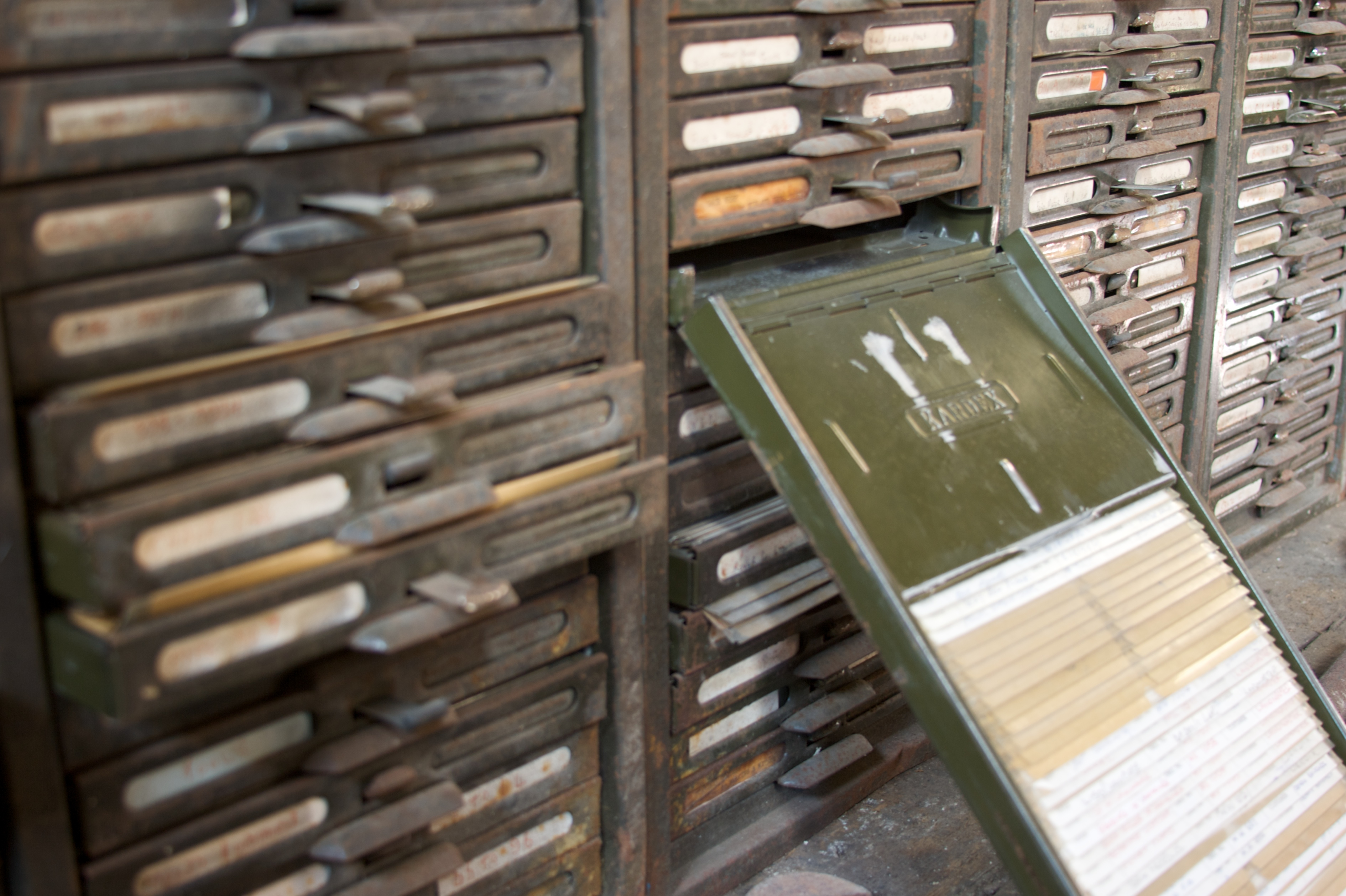 Old Kardex files used to store spare parts info for the Victoria Baths boilers, plumbing, etc.